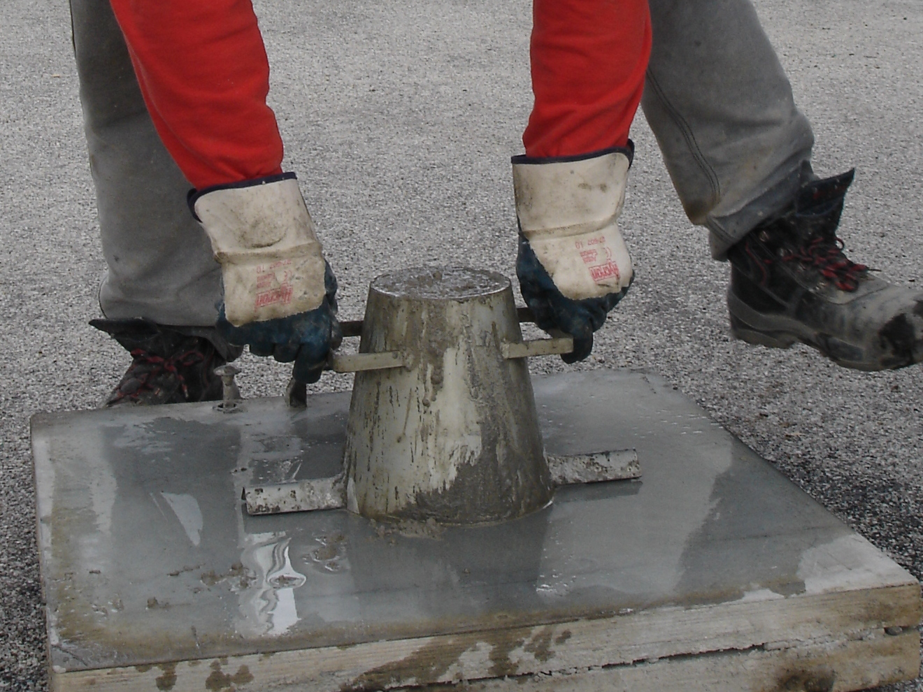 Concrete Flow Test shortly before lifting the funnel